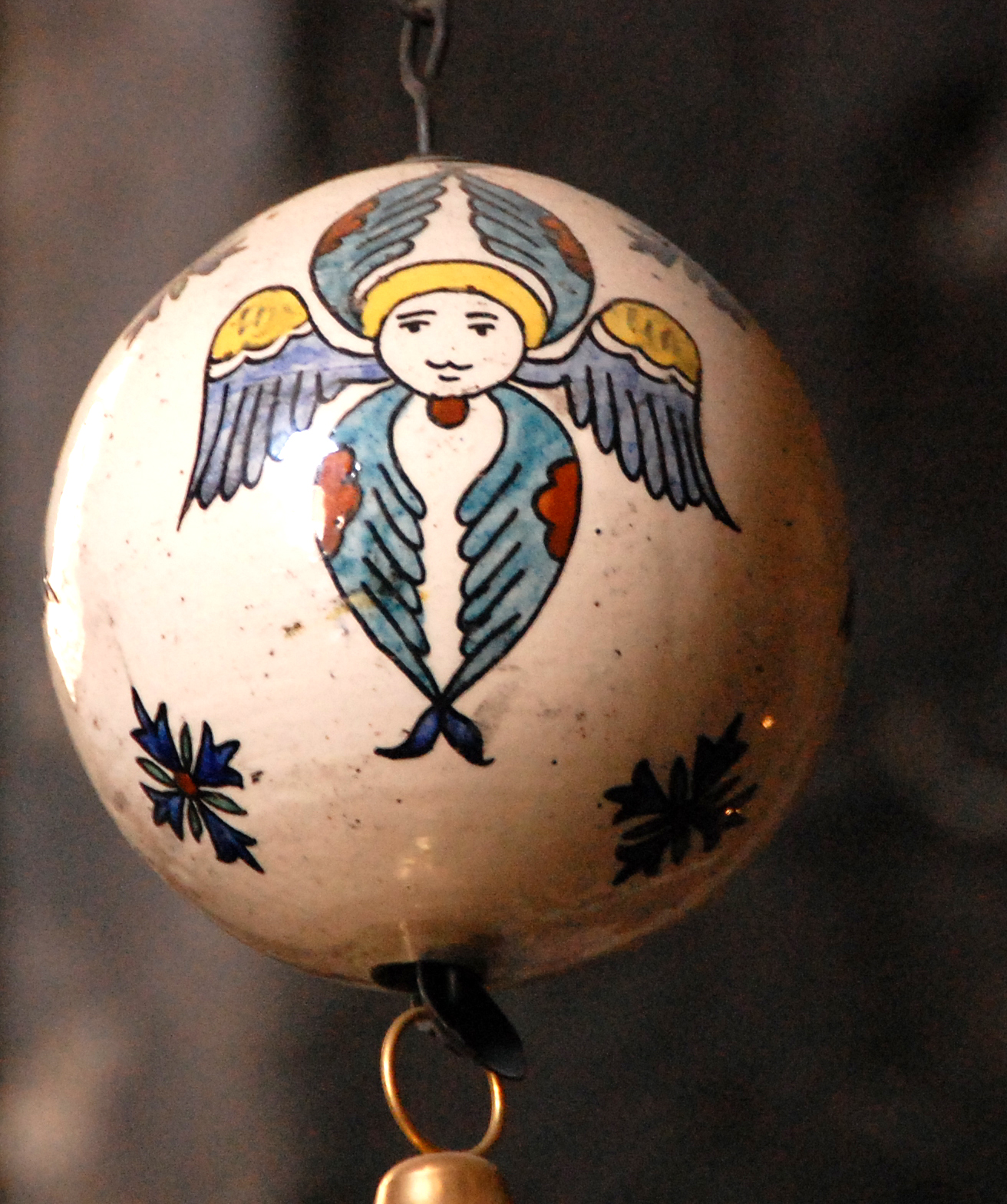 'egg' (ornament hung on oil lamp chains) with winged seraphim. Armenian artwork. These ceramic eggs are designed to prevent mouses to drink oil from the lamps